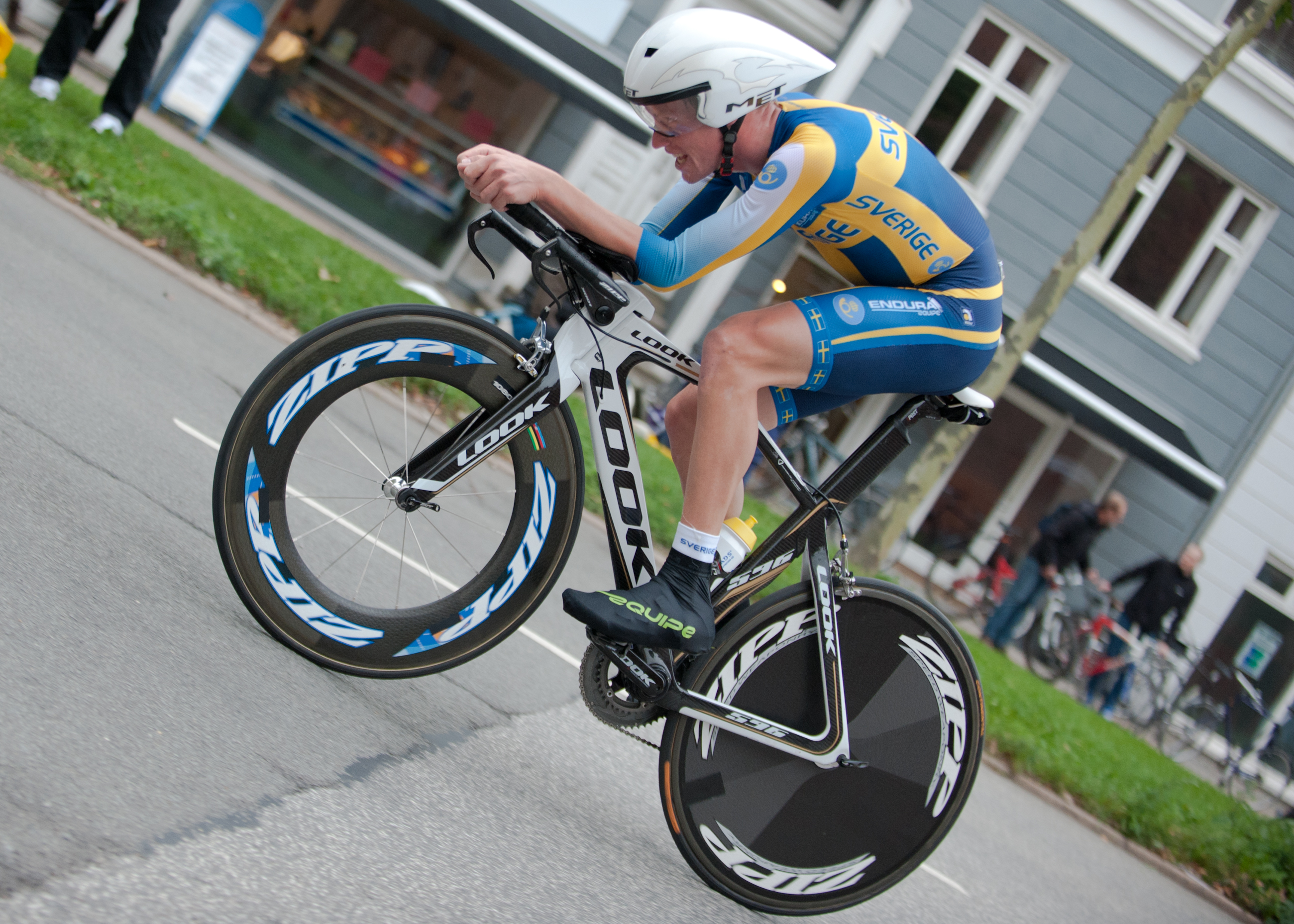 Alexander Wetterhall at the 2011 UCI Road World Championship in Copenhagen.